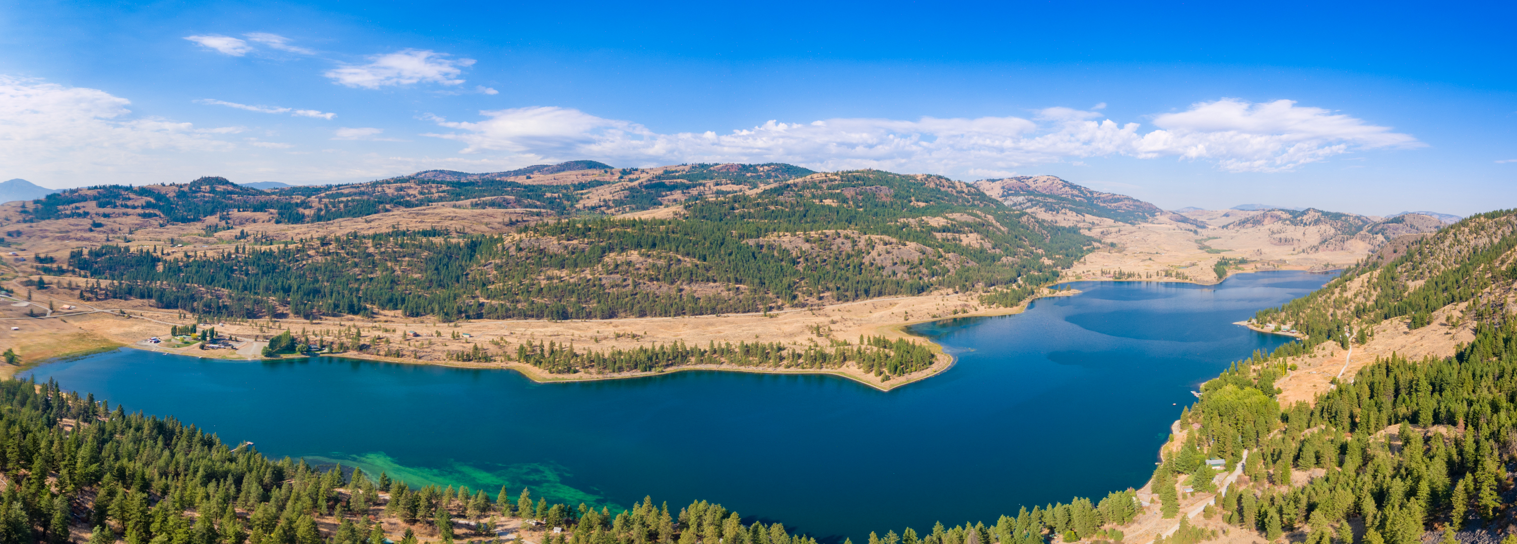 This is a composite panorama that I shot using my Phantom 4 drone several hundred feet above ground level.